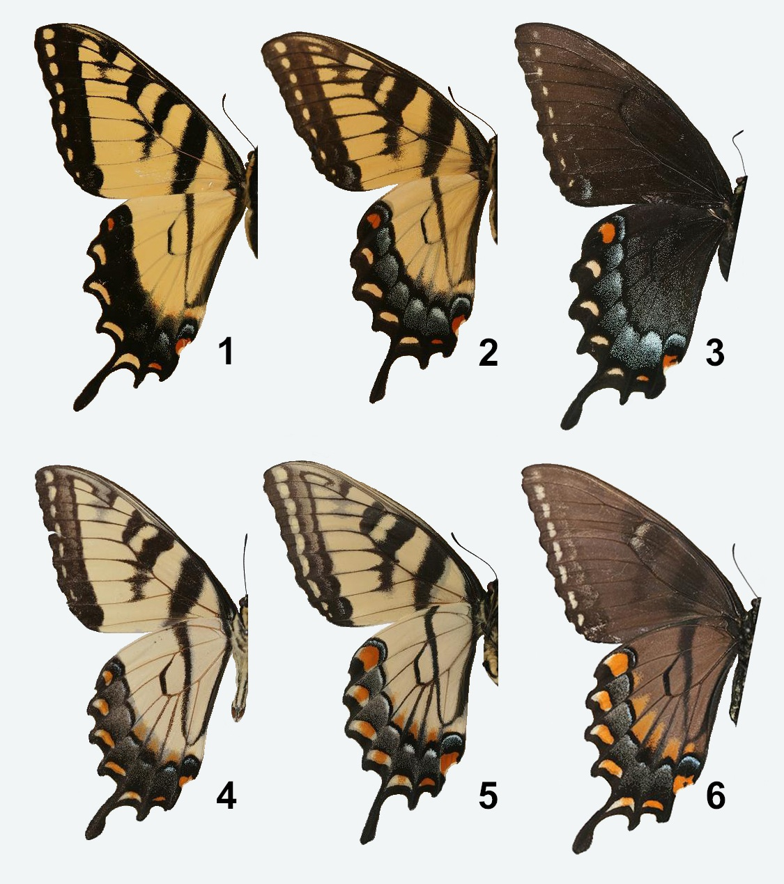 Dorsal and ventral sides of Papilio glaucus adults 1. Dorsal male 2. Dorsal female 3. Dorsal female (dark morph) 4. Ventral male 5. Ventral female 6. Ventral female (dark morph)